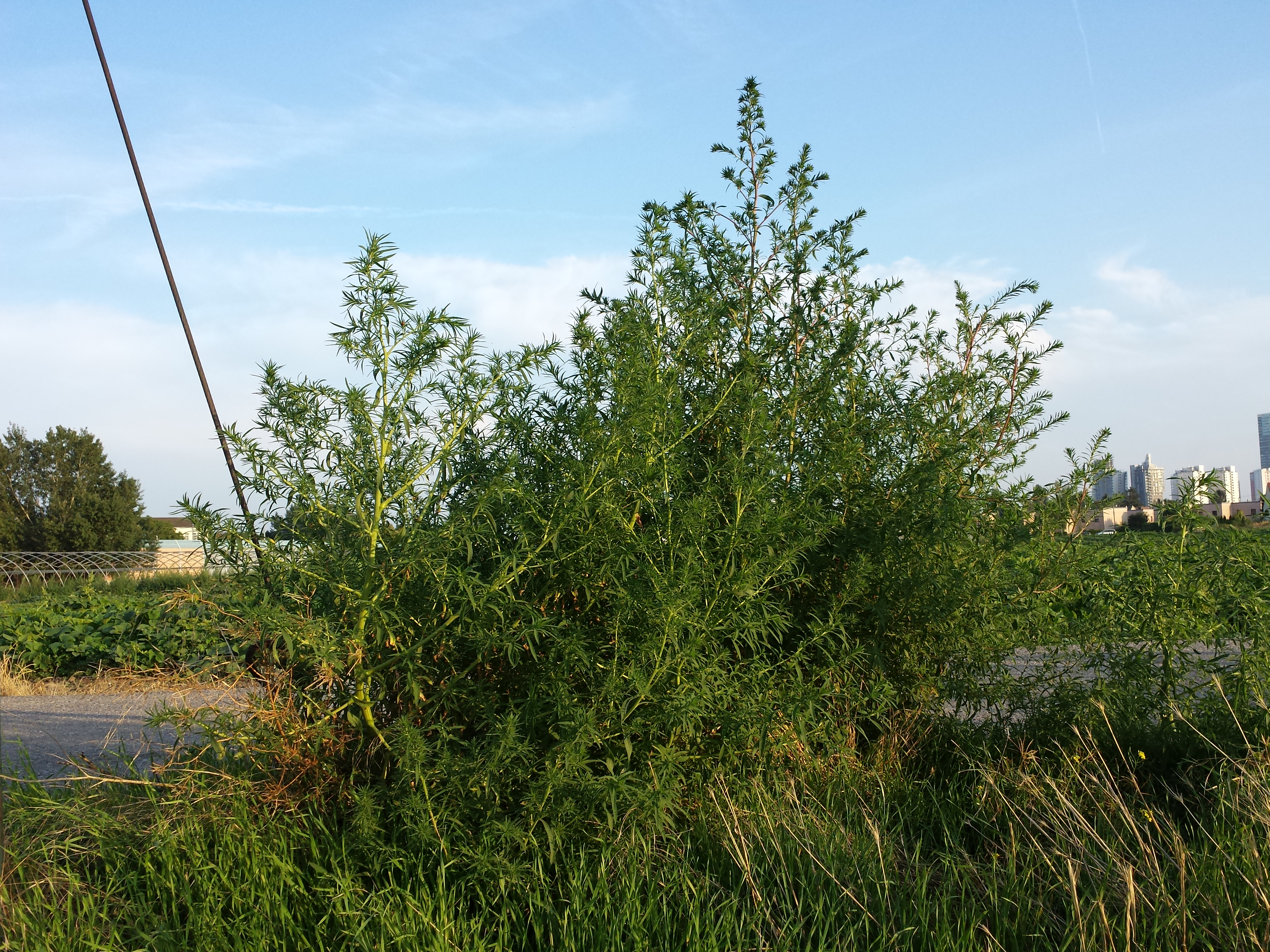 Habitus Taxonym: Bassia scoparia ss Fischer et al. EfÖLS 2008 ISBN 978-3-85474-187-9 Location: Donaufeld, Vienna-Floridsdorf - ca. 160 m a.s.l. Habitat: wayside